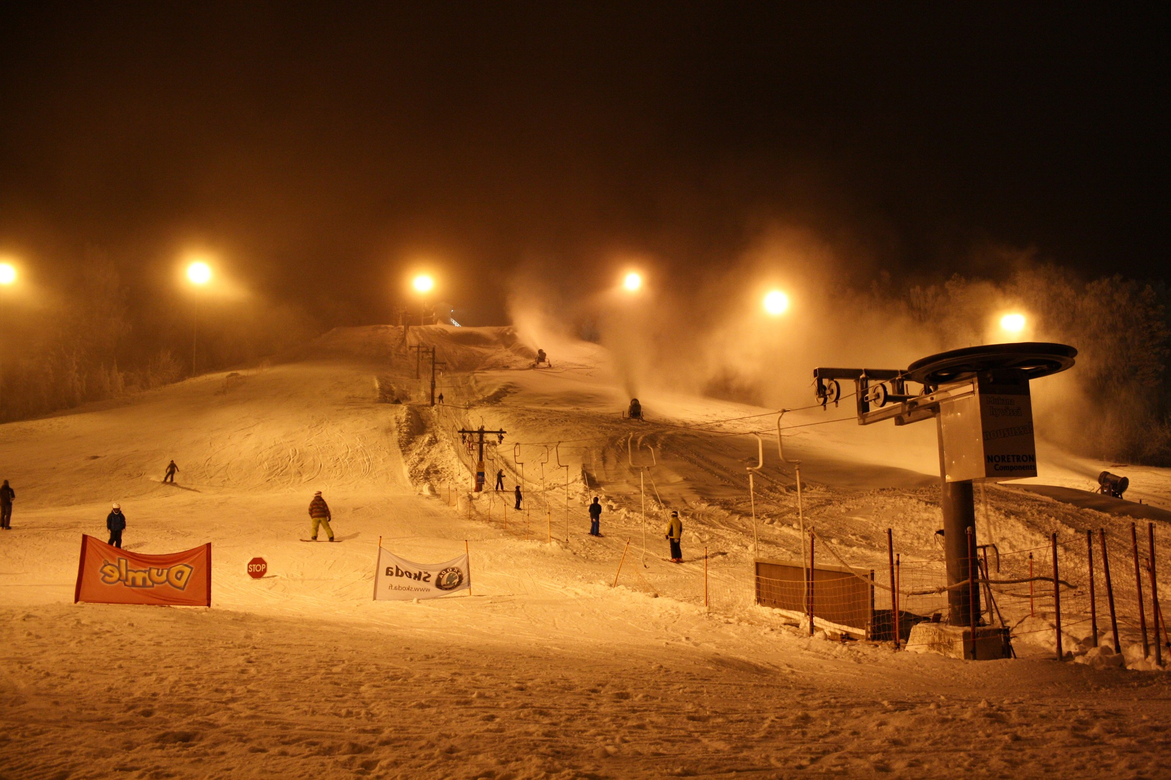 "Granibacken" ski slope in Kauniainen, Finland.